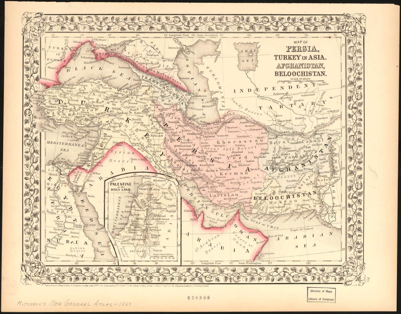 Samuel Augustus Mitchell (1792–1868) was a renowned American geographer and cartographer. The majority of his work focused on the United States, but he also made maps of other parts of the world, including this 1868 map of the Ottoman Empire, Persia (present-day Iran), Afghanistan, and Baluchistan. The main territorial units that Mitchell shows are Turkey, meaning the core of the Ottoman Empire comprised of present-day Turkey, Iraq, Syria, and Lebanon; Persia; Afghanistan; and Baluchistan (mainly present-day Pakistan). Egypt and much of the Arabian Peninsula were at that time technically under the sovereignty of the Ottoman Empire, but they were highly autonomous and Mitchell shows them as separate states. An inset map at the lower left depicts Palestine, or the Holy Land, a subject of great interest to 19th-century American readers. This map also was published in Mitchell's New General Atlas (1869). Arabian Gulf; Arabian Peninsula; Persian Gulf